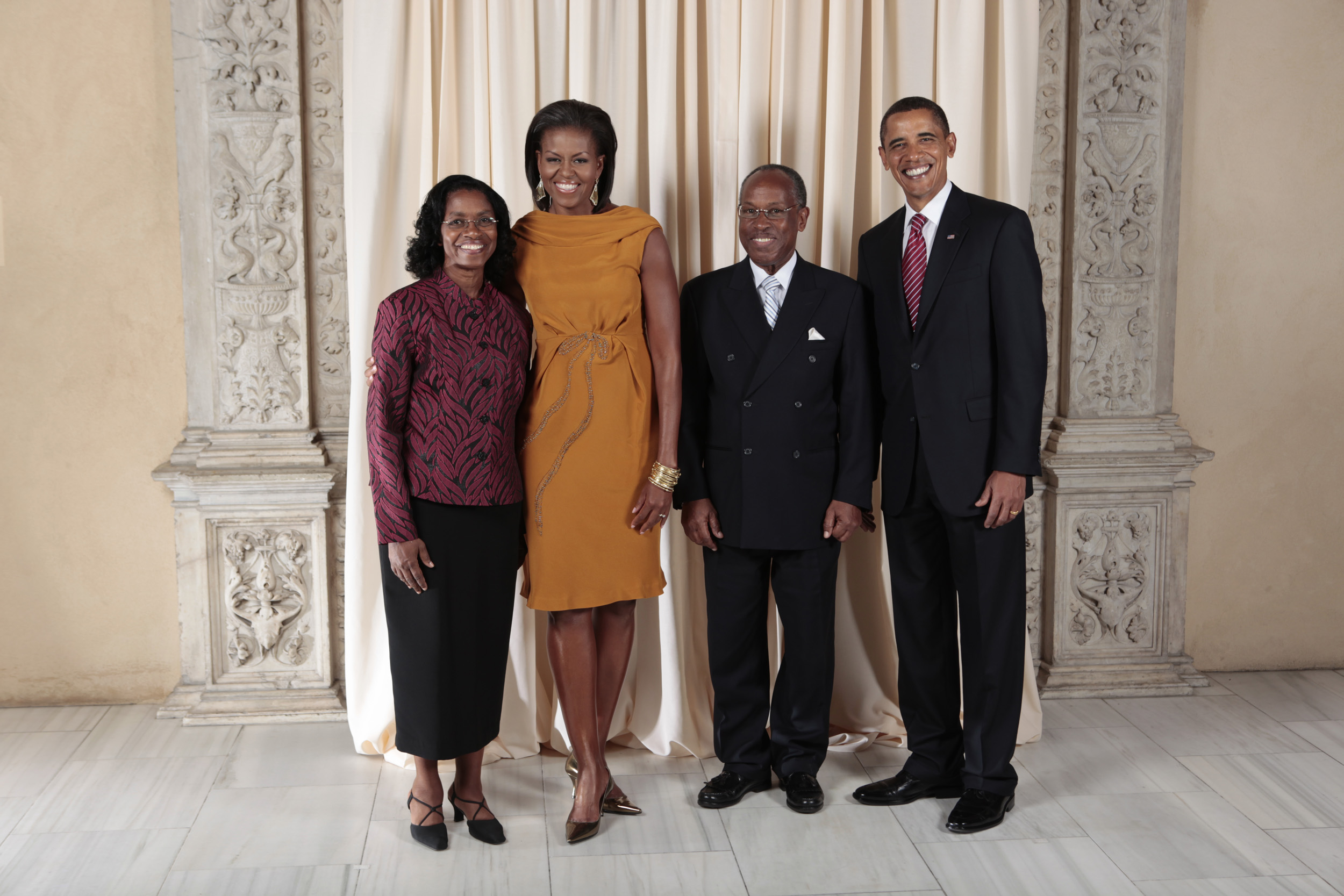 President Barack Obama and First Lady Michelle Obama pose for a photo during a reception at the Metropolitan Museum in New York with Sir Louis Straker, K.C.M.G., Deputy Prime Minister and Minister of Foreign Affairs, Commerce, and Trade of Saint Vincent and the Grenadines, and Mrs. Straker.